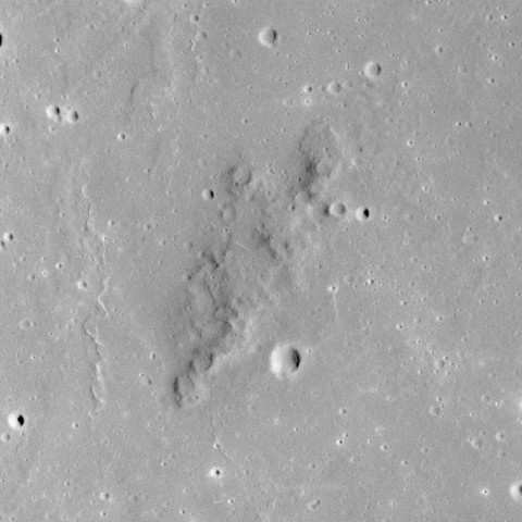 Mons Moro, Mare Cognitum, on the moon. Sun elevation 24 deg. (at left), spacecraft altitude 124 km.